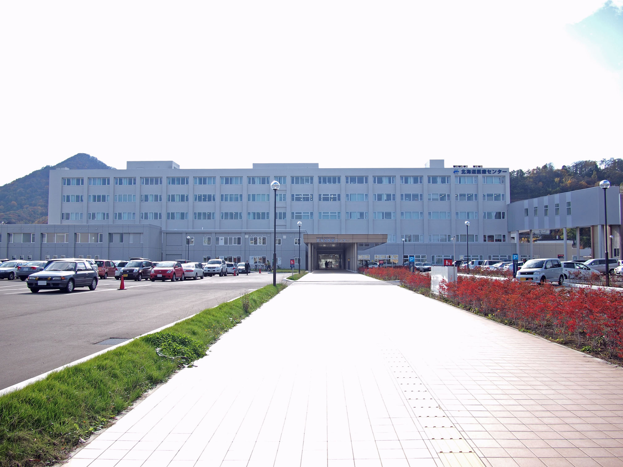 National Hospital Organization Hokkaido Medical Center, Sapporo, Hokkaido, Japan